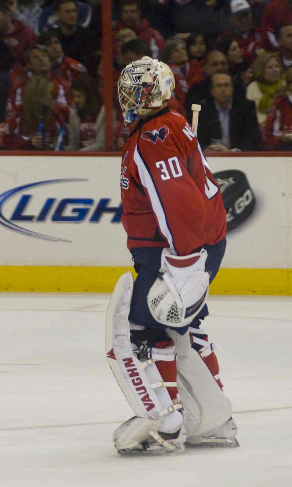 Michal Neuvirth Photo taken on March 3, 2011 by Sarah Connors. St. Louis Blues vs. Washington Capitals – National Hockey League (NHL) This photo also appears in sarah_connors' Flickr photostream Blues @ Caps, 3/3/11 (Set: 134) Flickr Tags: St. Louis Blues, Washington Capitals, Capitals, Caps, Blues, hockey, icehockey, NHL, Verizon Center